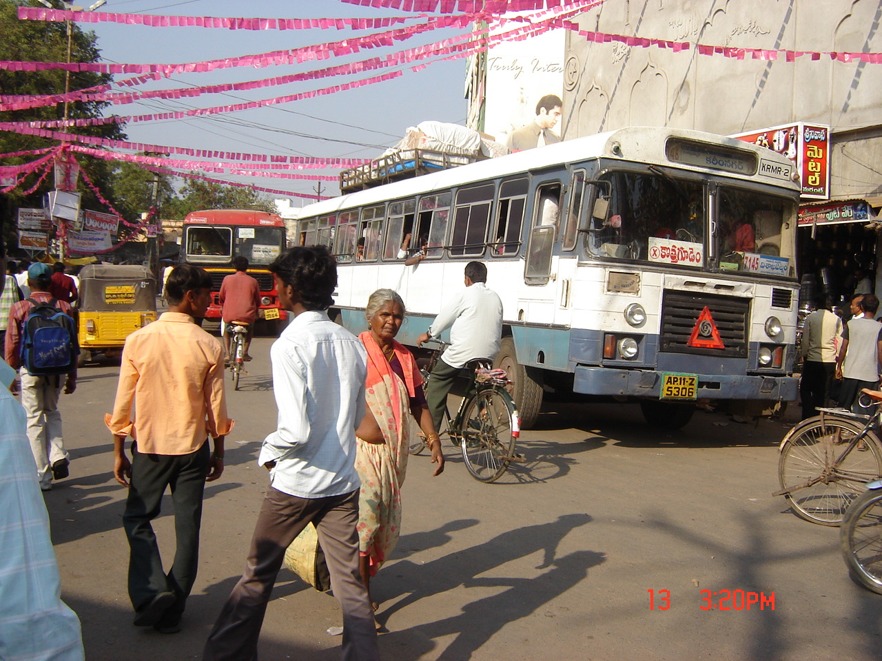 Busy Centre & bus stop at railway station, Mahabubabad, Telangana State, India.